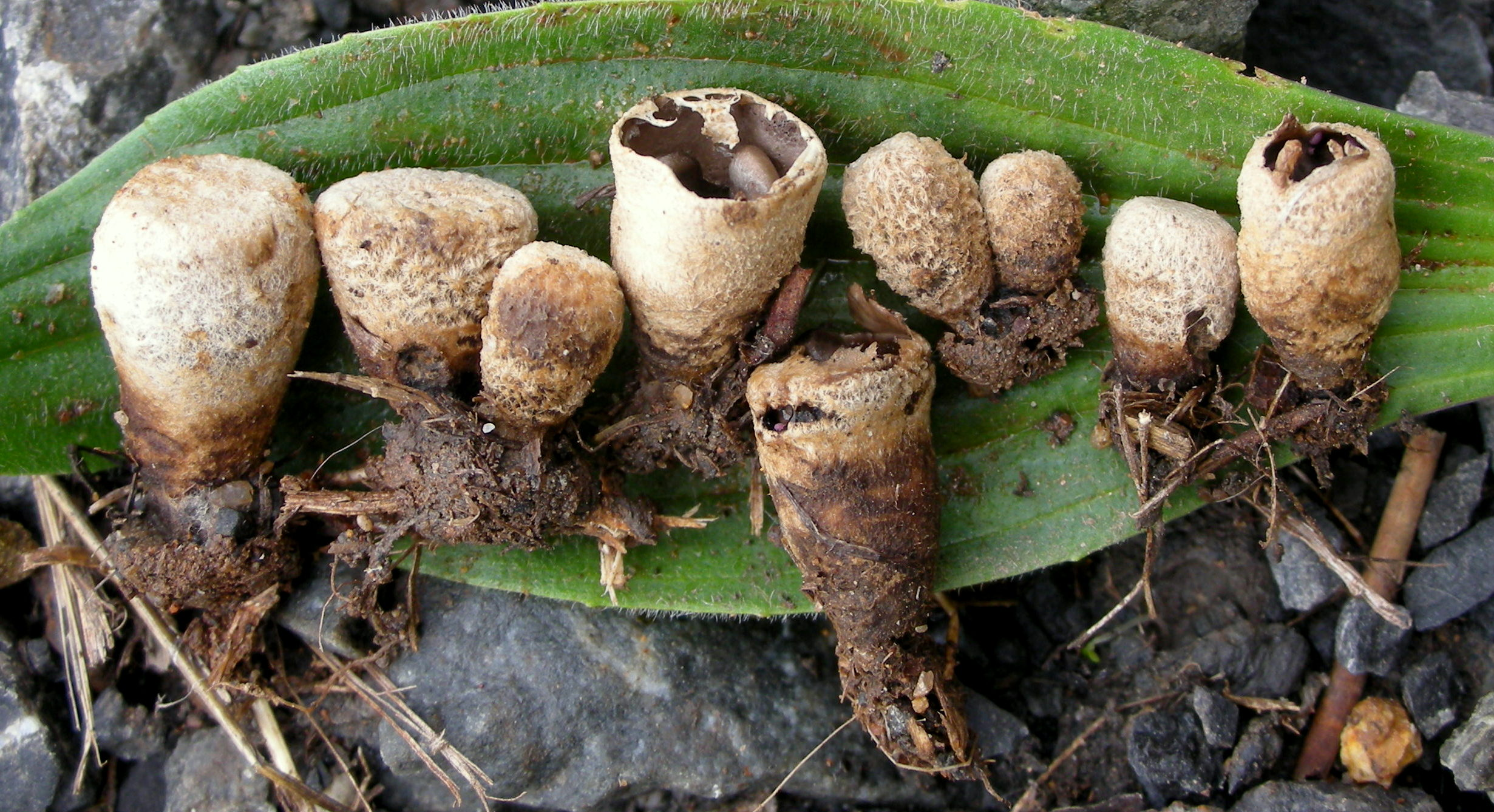 Cyathus olla (Batsch) Pers. Image location: Point Reyes National Seashore, Marin Co., California, USA Growing on edge of fire road in mixture of gravel and grass. Small, up to 8 mm across X 12 mm high. Eggs with a short whitish cord. Spores ~ 10-13 X 7-8.5 microns, smooth. Recognized by sight For more information about this, see the observation page at Mushroom Observer.